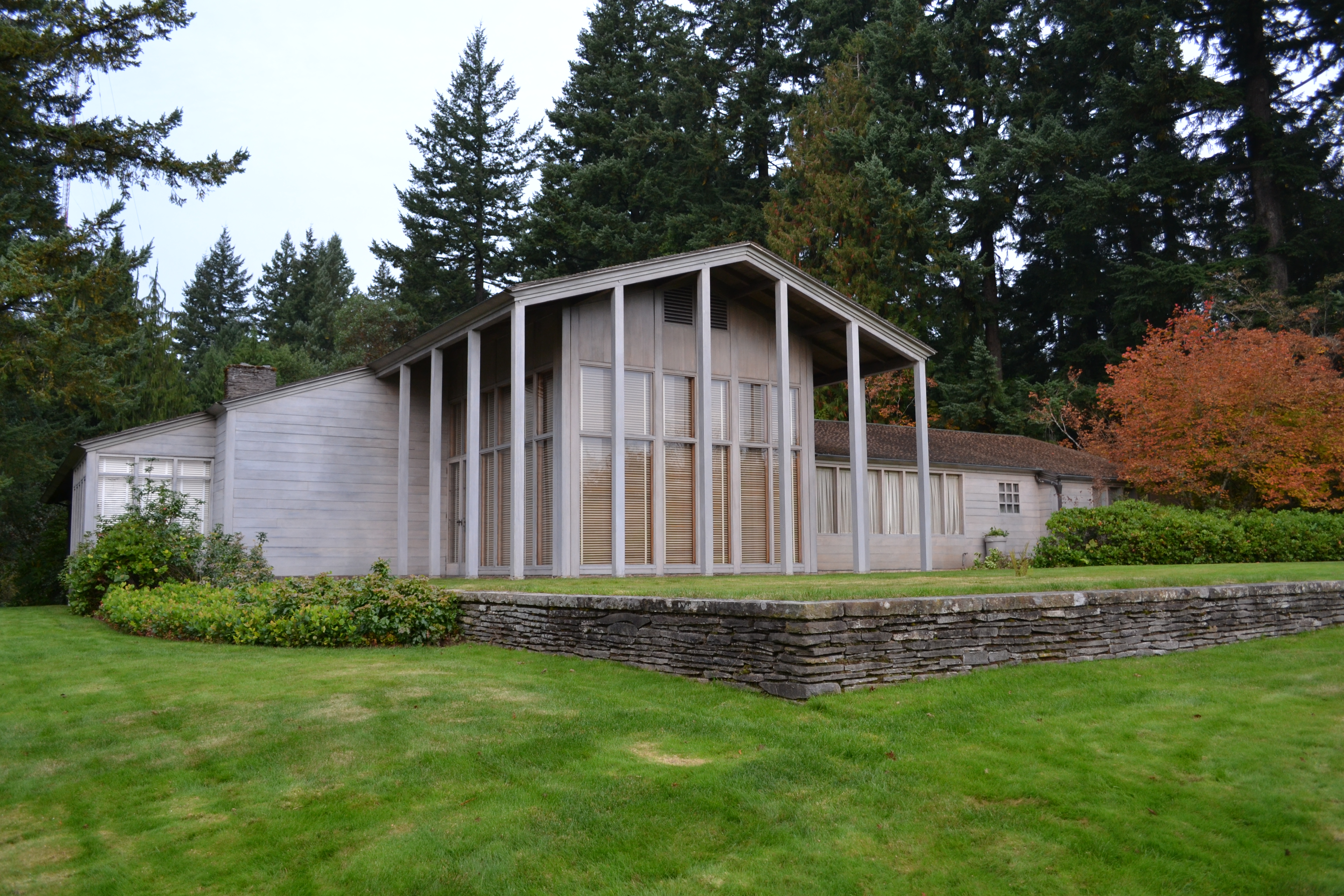 The Watzek House is on the National Register of Historic Places and became a National Historic Landmark on July 25, 2011